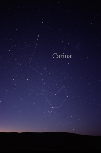 Photo of the constellation Carina, the Keel